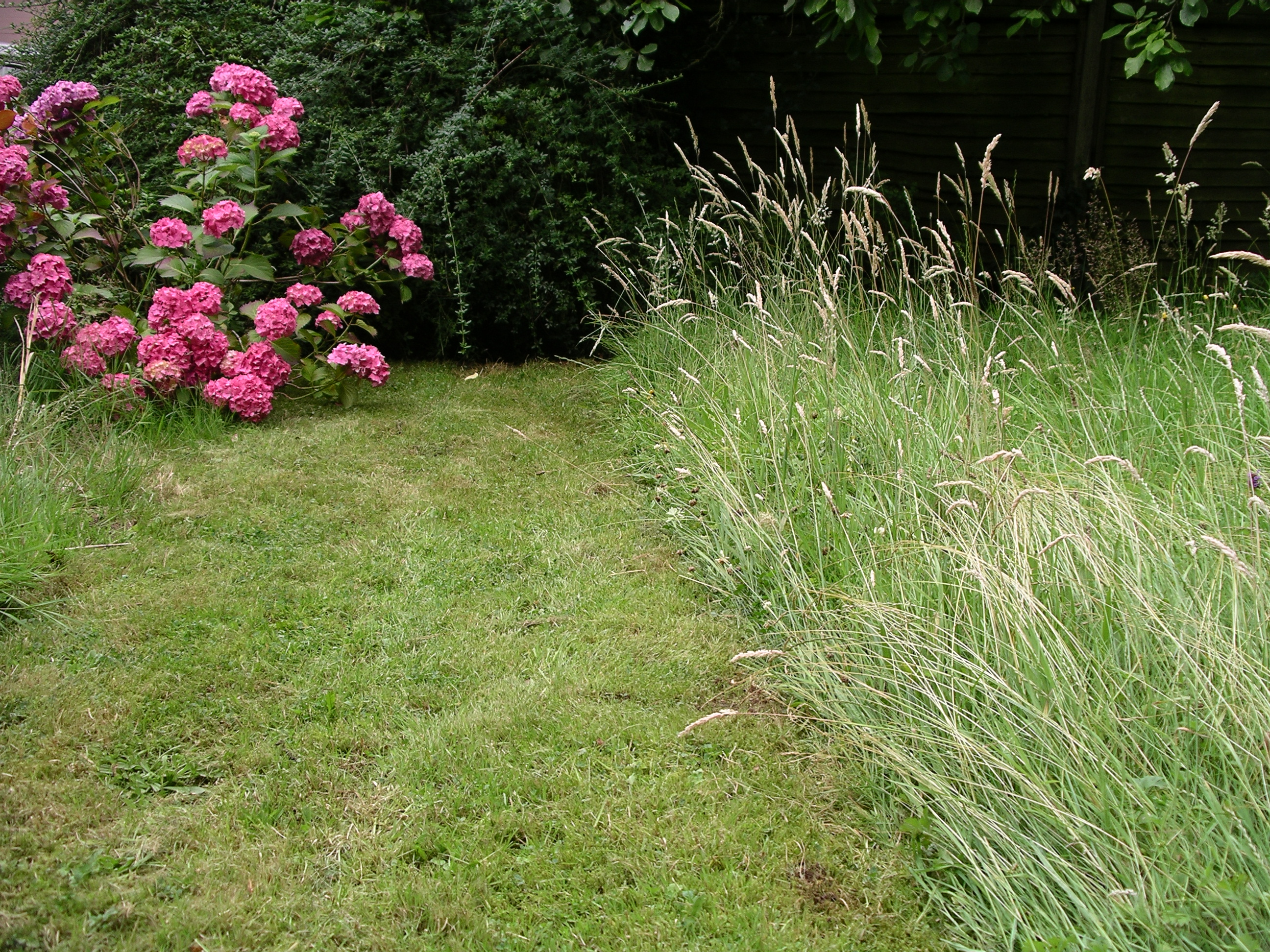 Photo of an English lawn taken on 16 July 2007 - the area on the left was mowed twice in 2007 and the area on the right had not been mowed in 2007.